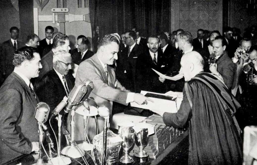 President Gamal Abdel Nasser granted Mahfouz the First Class Order of Merit and the State Prize of Distinction for Science